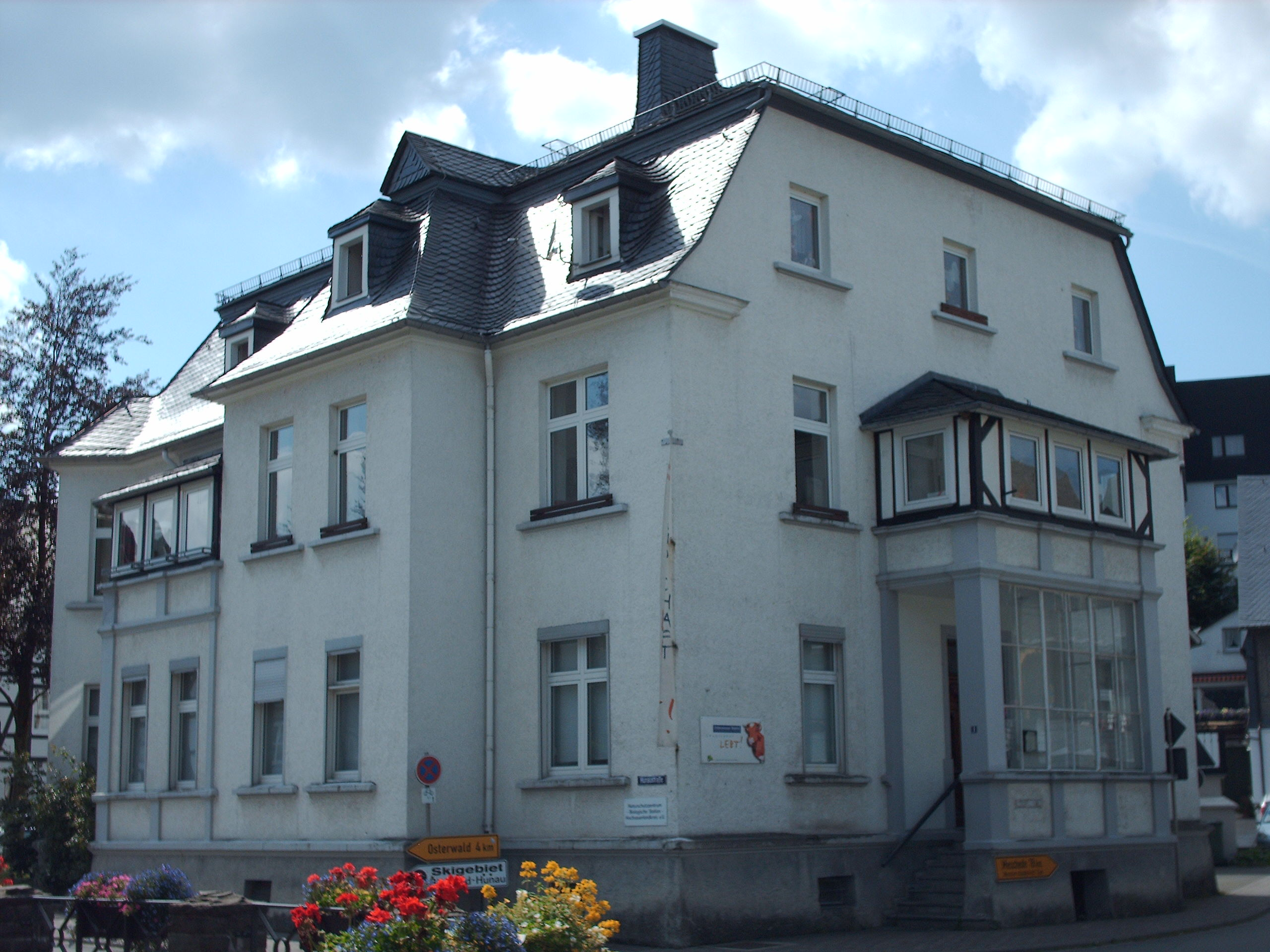 Biologische Station Hochsauerlandkreis Bödefeld, Schmallenberg, Germany check usage